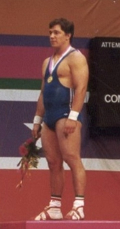 110 kg weightlifting podium at the 1984 Olympics